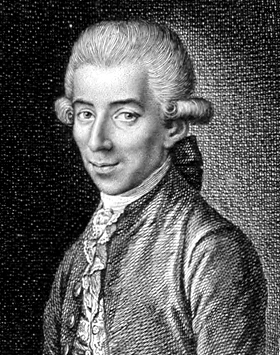 Ignaz von Born, austrian geologist and freemason